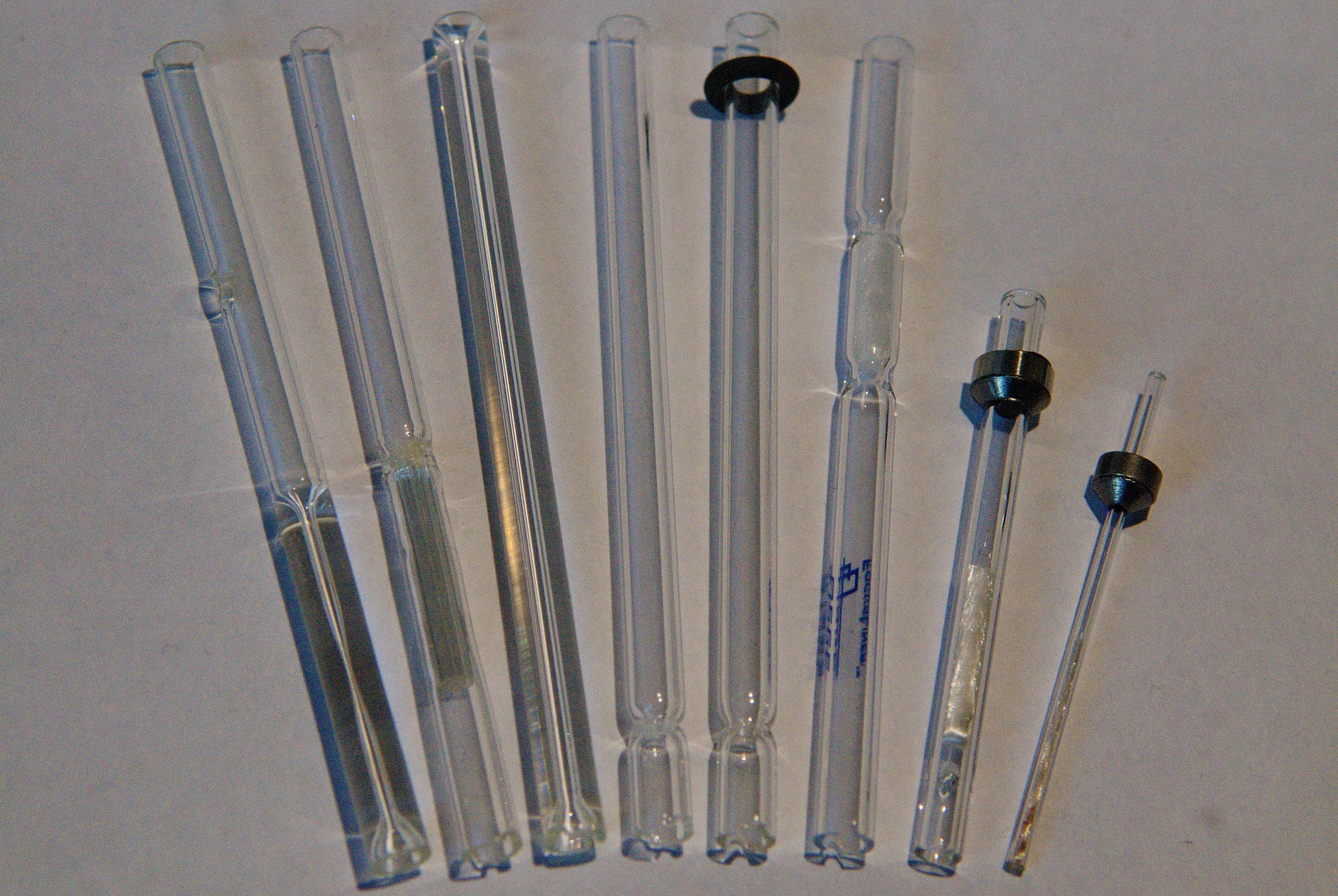 Different types of gas chromatography liners from different vendors